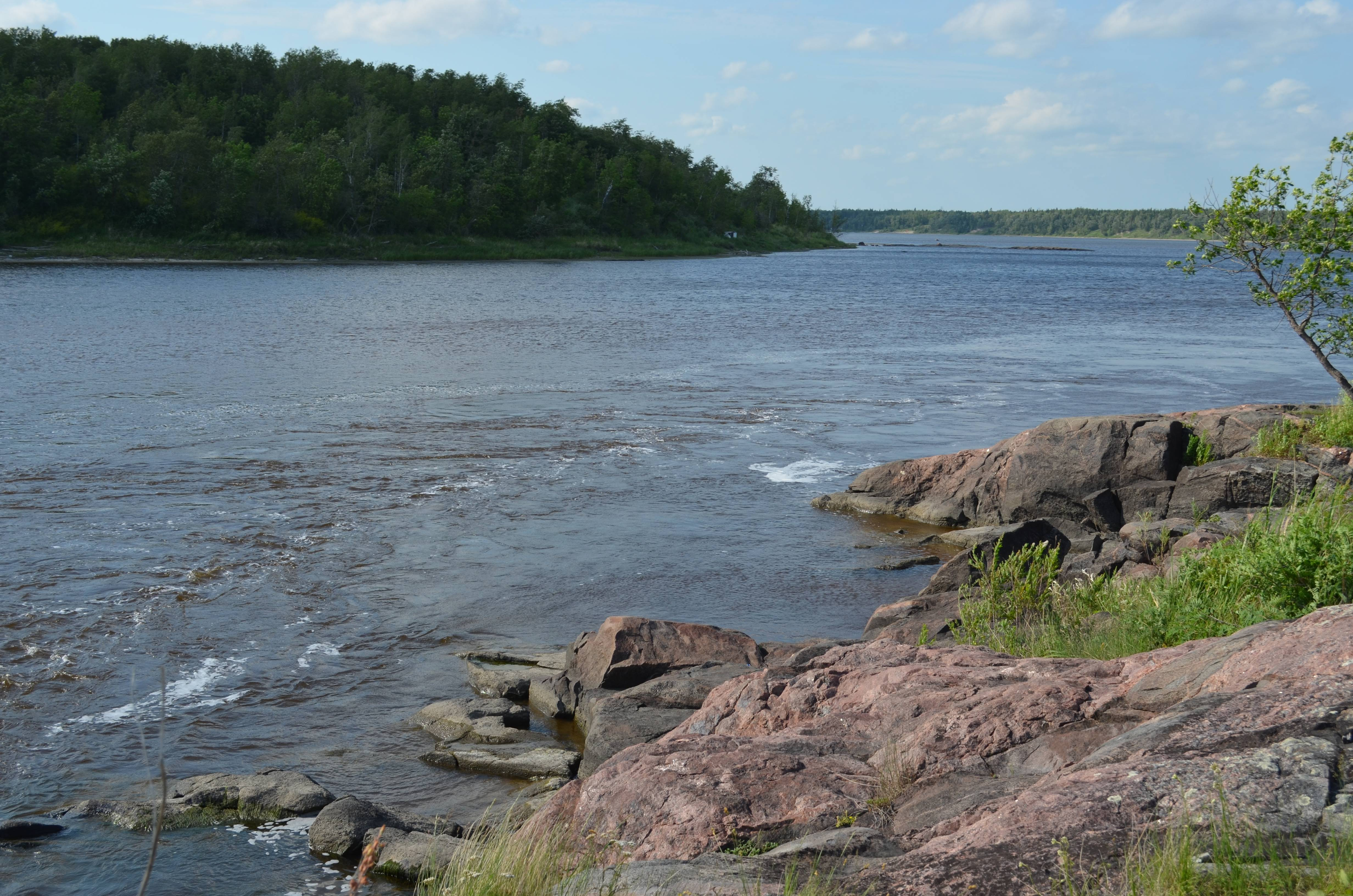 Open view of Whiteshell River, to the left a rocky granite shore